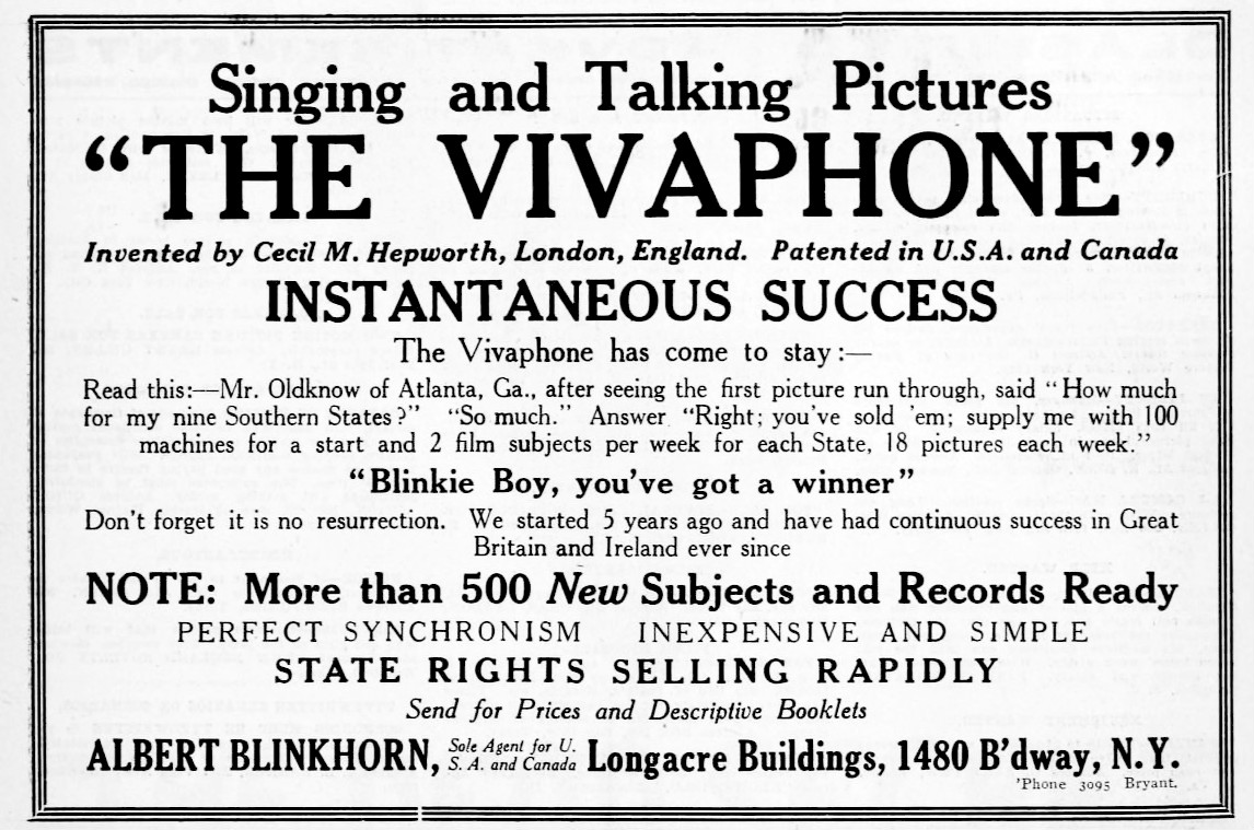 Advertisement for Vivaphone, an early sound system for film that was invented by Cecil Hepworth.